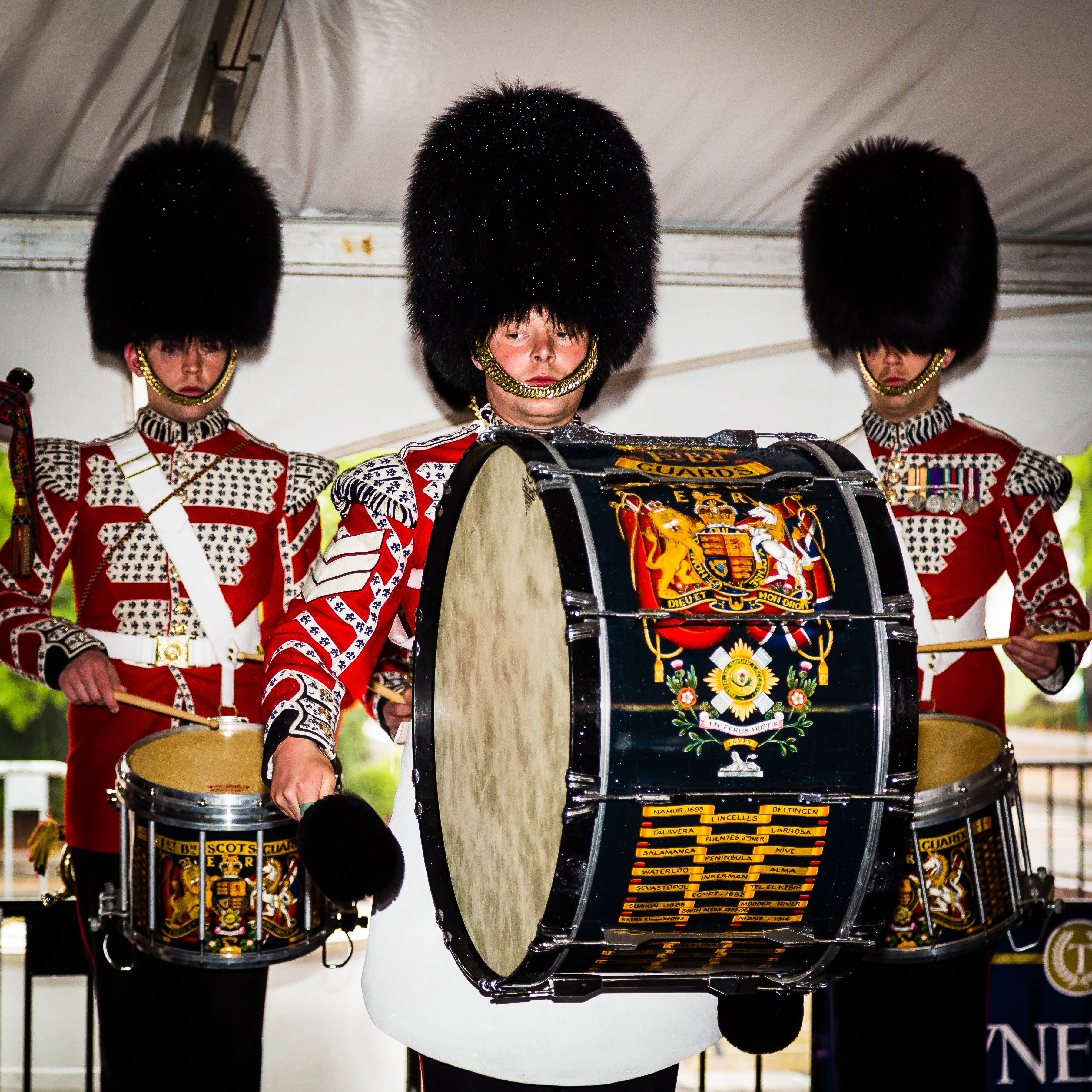 Norfolk, VA on a rainy Saturday British 1st Battalion Scots Guards Pipes and Drums